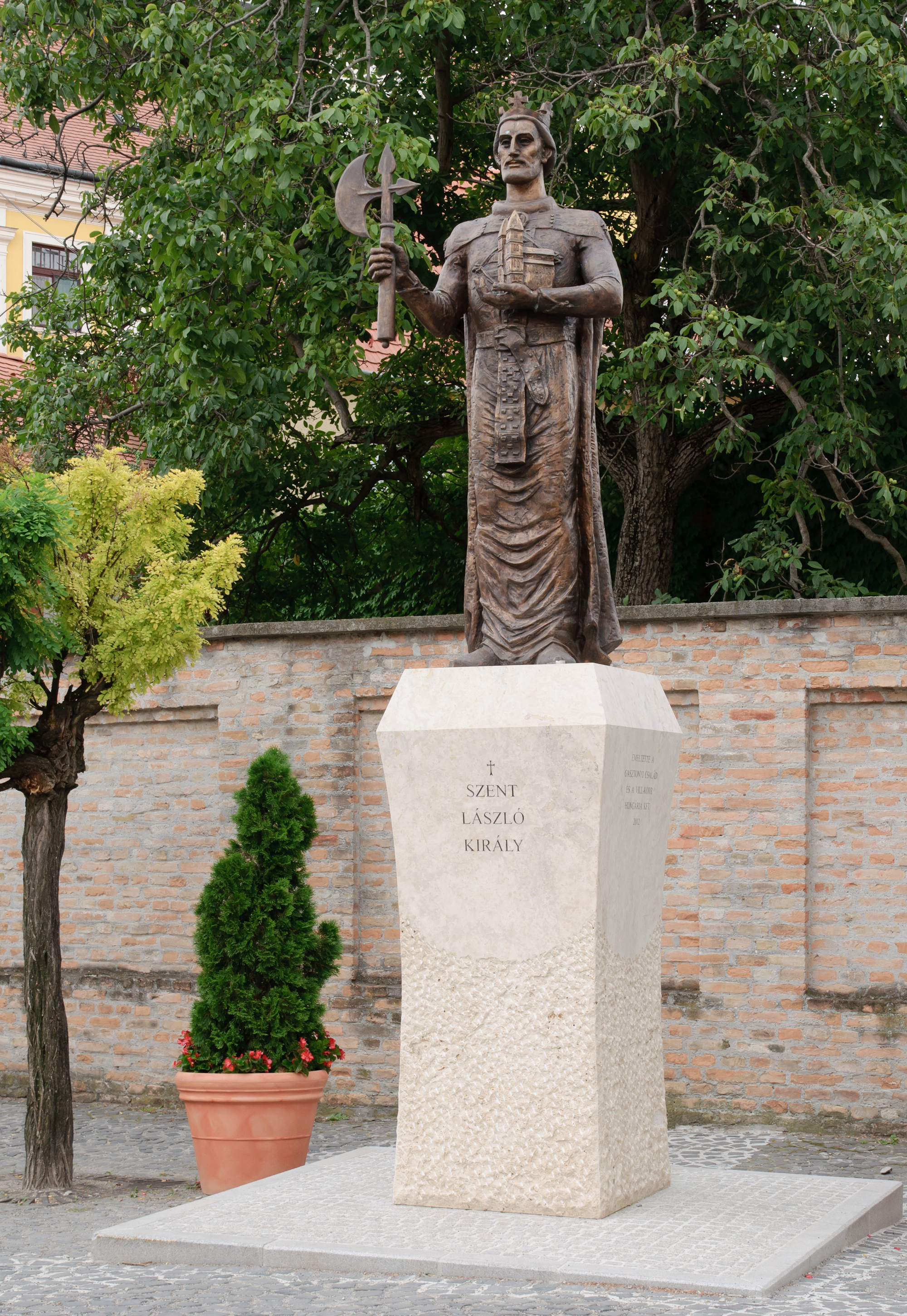 The monument of Ladislaus I in Győr, Hungary. Sculptor: Ferenc Lebó (*1960) in 2012